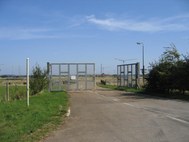 RAF Barford St. John near Bloxham